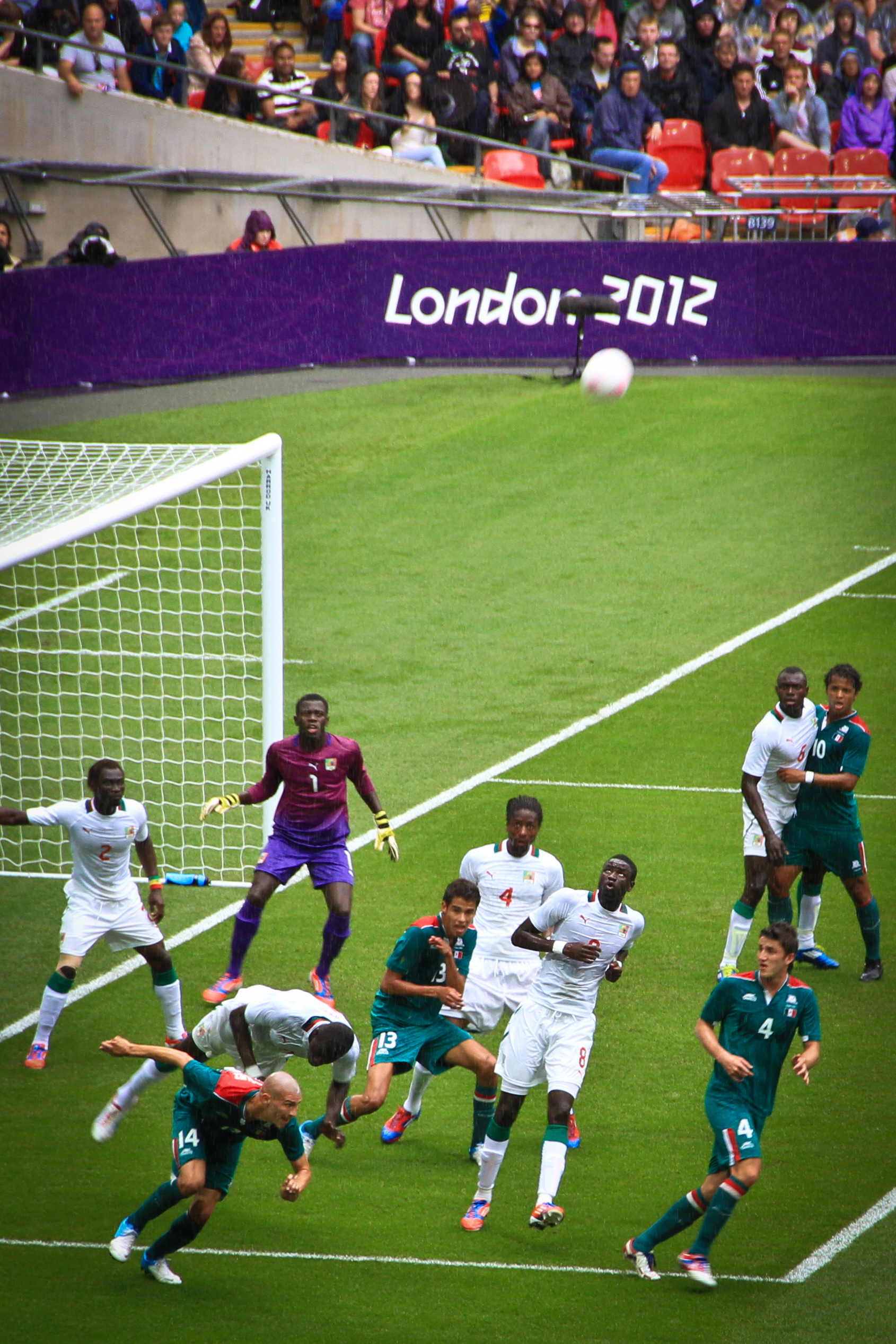 Mexico vs Senegal, Wembley Stadium.